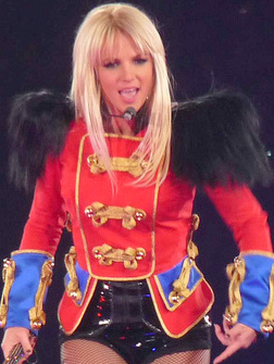 Spears in london